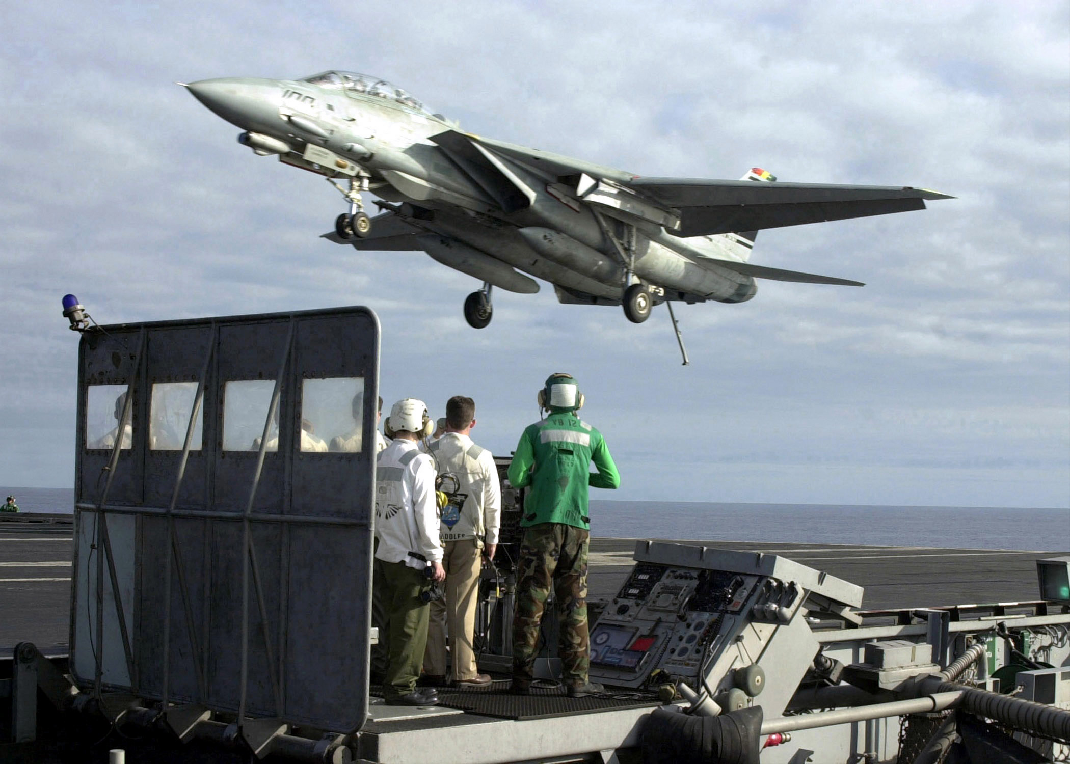 A Grumman F-14D Tomcat from the Tomcatters of Fighter Squadron VF-31 flies over the Landing Signal Officer (LSO) platform aboard U.S. aircraft carrier USS Abraham Lincoln (CVN-72) after returning from a successful proficiency flight. The Lincoln was on her final leg of a scheduled six-month deployment to the Arabian Gulf in support of "Operation Southern Watch".